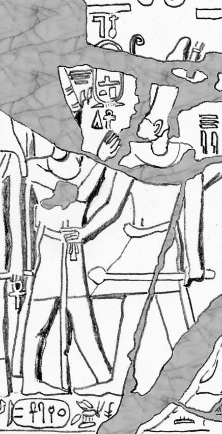 Drawing (closeup) of the badly damaged Egyptian stele JE 59635 / CG 20799. Pharaoh Sekhemre Sankhtawy Neferhotep III (right) presumably receives life from a deity (right) who might be Amun. From Thebes, reign of Neferhotep III, 16th Dynasty, Second Intermediate Period, now in Cairo. [ref:Pascal Vernus (1982): "La stèle du roi Sekhemsankhtaouyrê Neferhotep Iykhernofret et la domination Hyksôs (stèle Caire JE 59635)", ASAE 68, pp.129-135.]